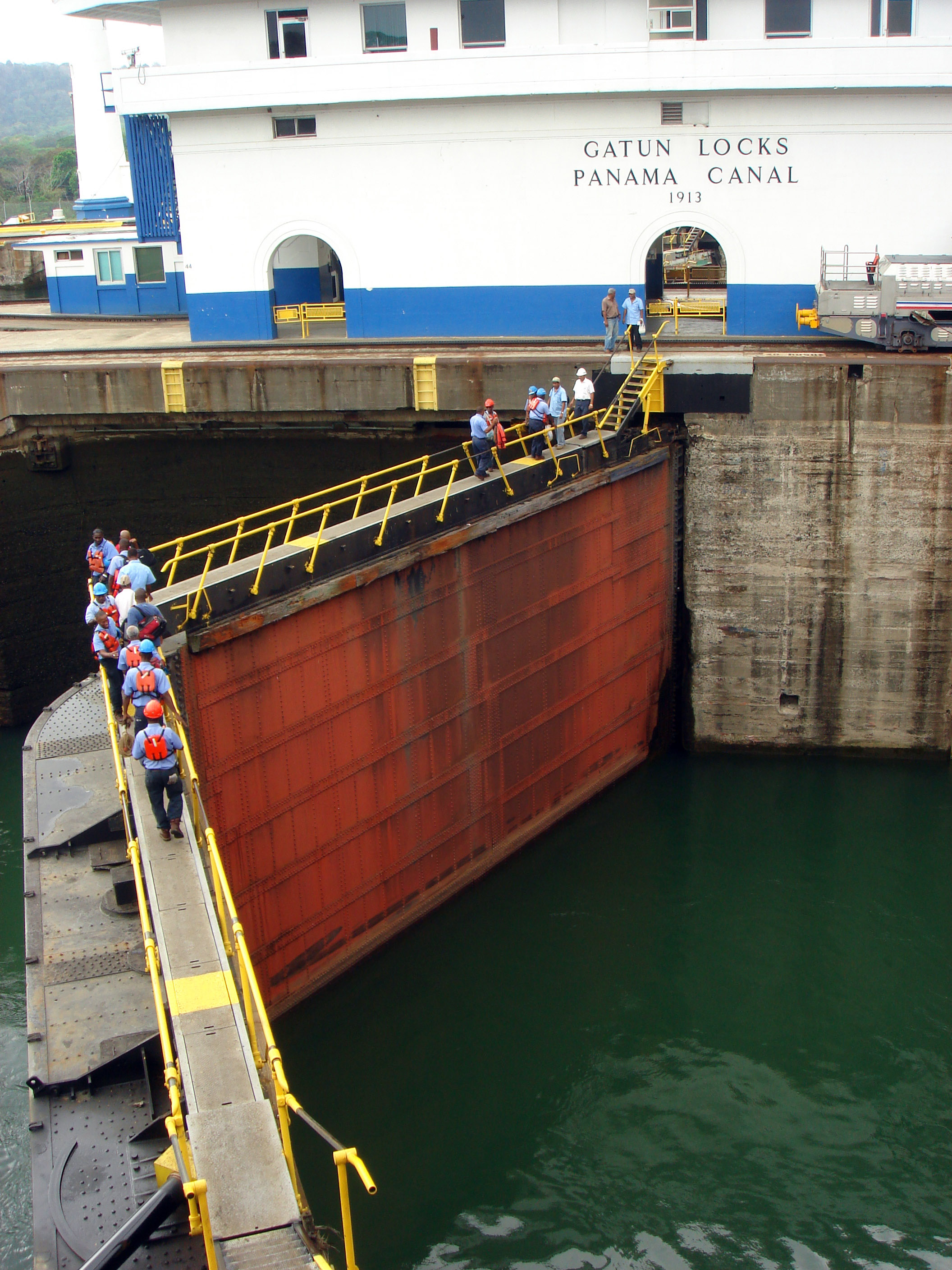 Mitre type lock gates at Gatun Lock, Panama